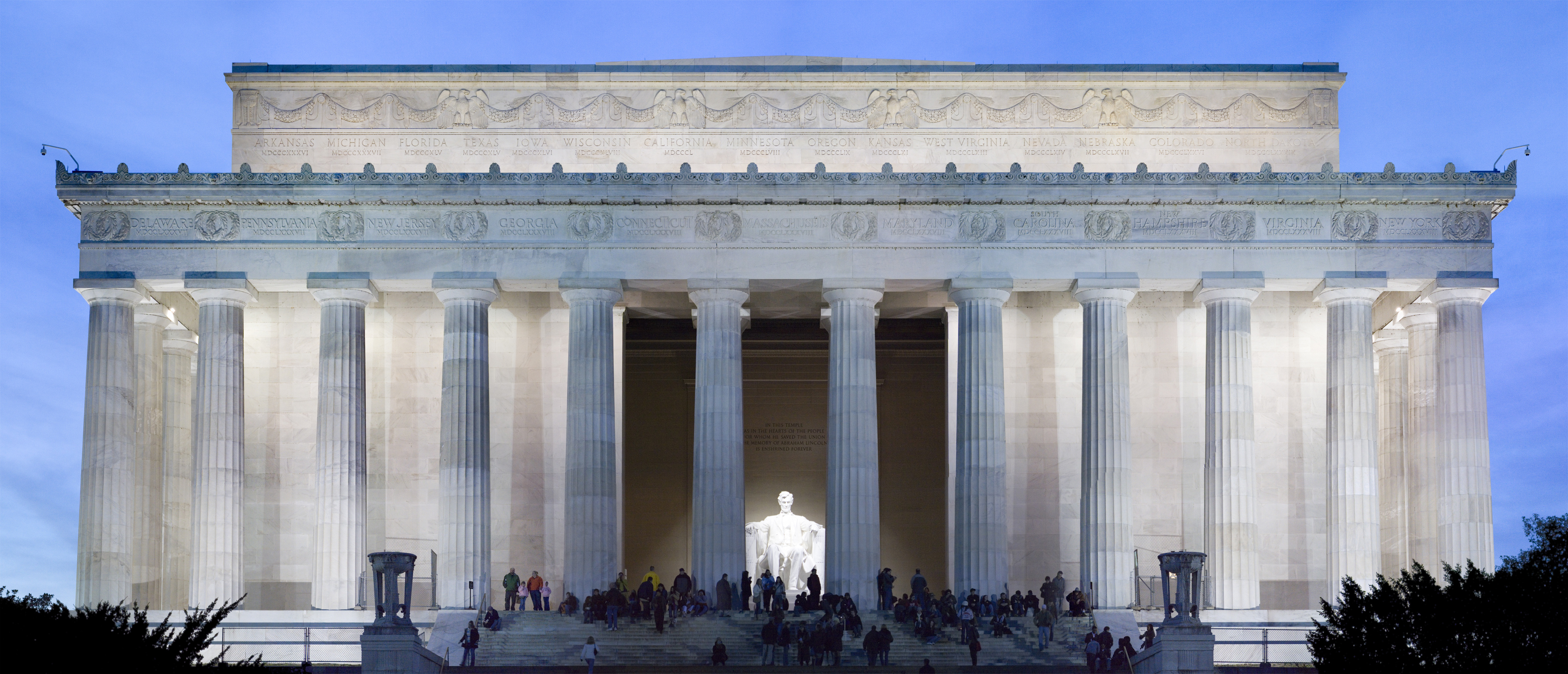 The Lincoln Memorial in Washington DC.